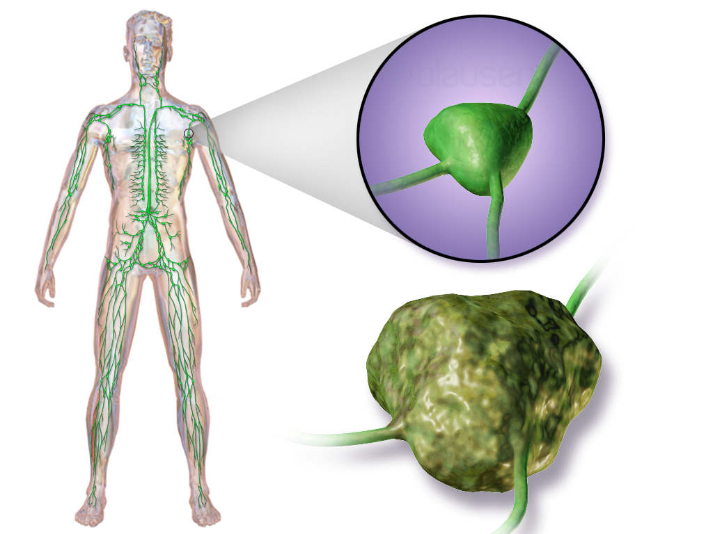 Lymphoma. See a full animation of this medical topic.